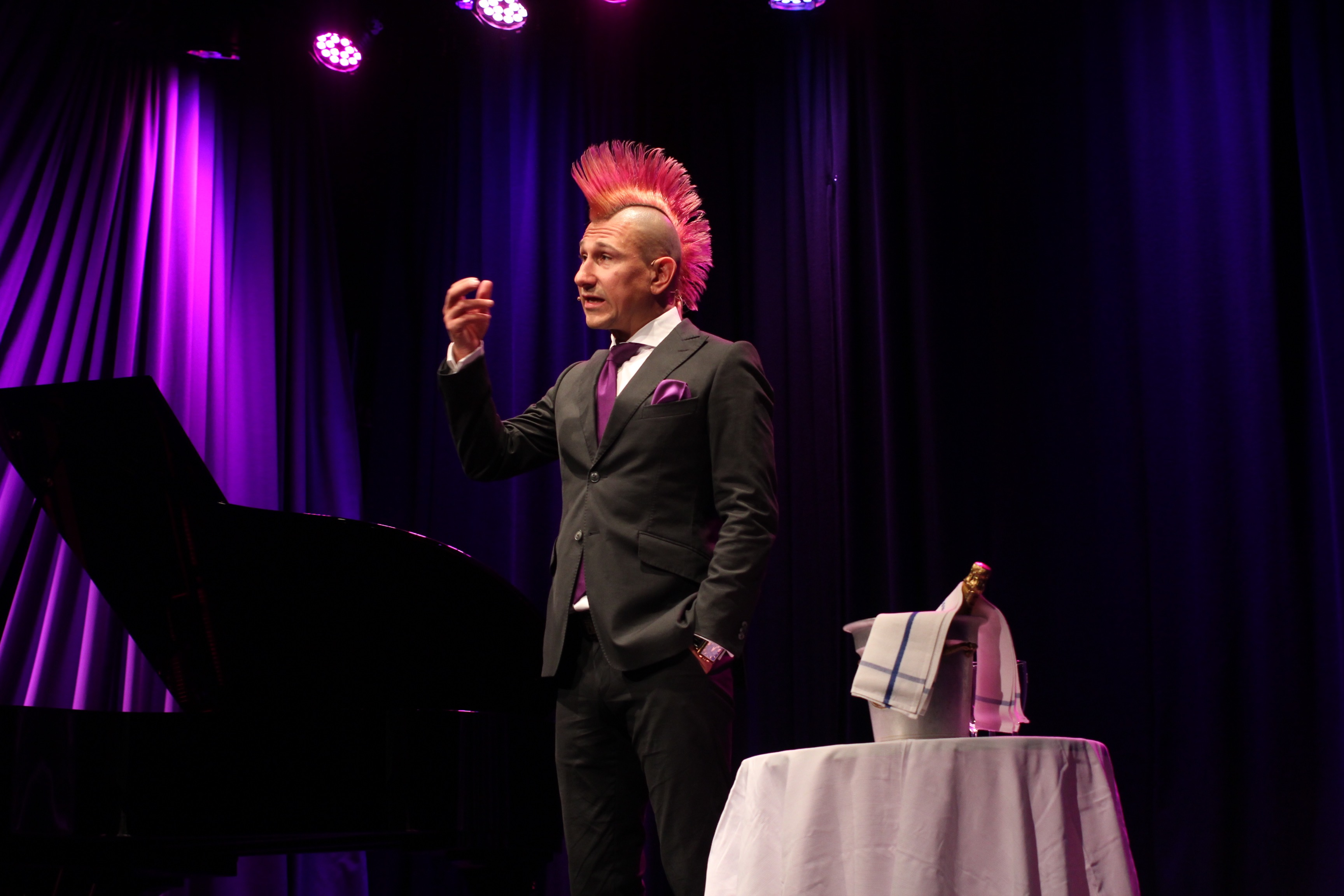 Andreas Thiel